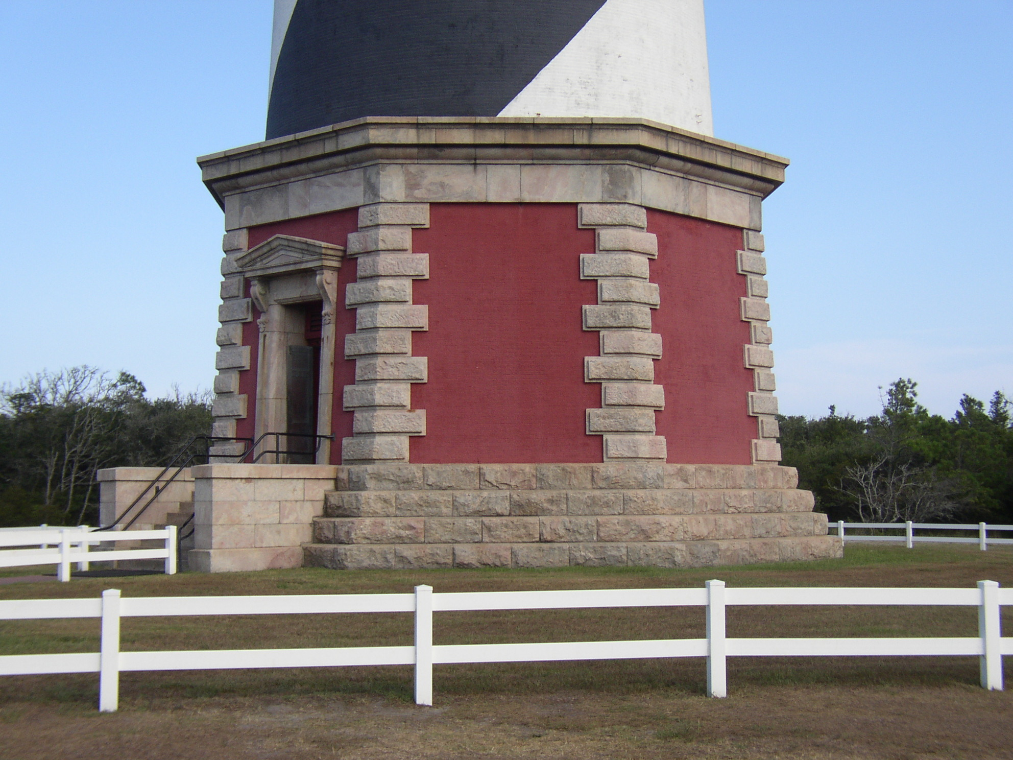 Base of Cape Hatteras Light Station